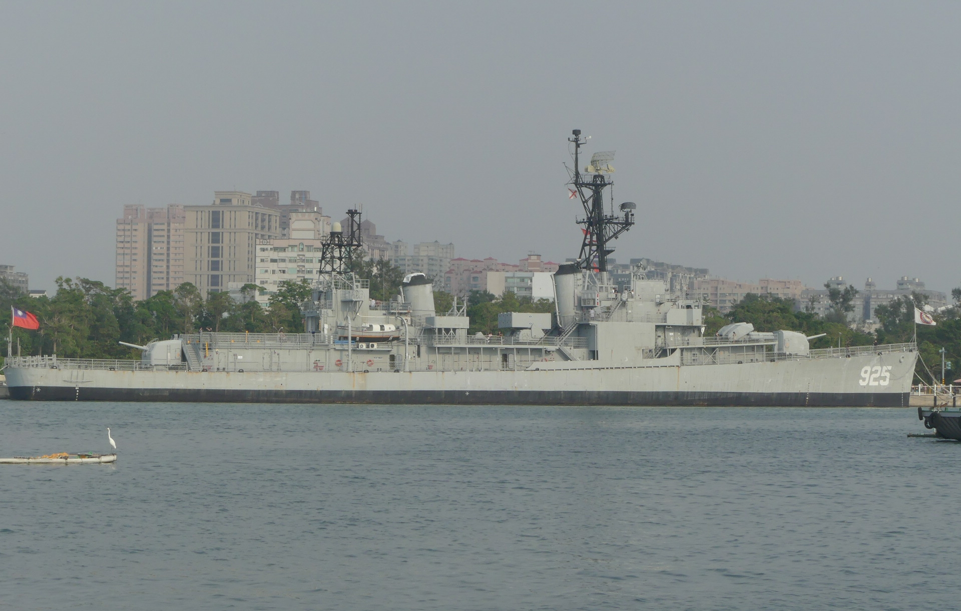 ROCS Te Yang (Former USS Sarsfield) at Anping Port